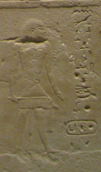 The high priest of Ptah Sehotepibre-ankh under the reign of Senusret Ist - From the Ankhefensekhmet stela - 22nd dynasty of Egypt